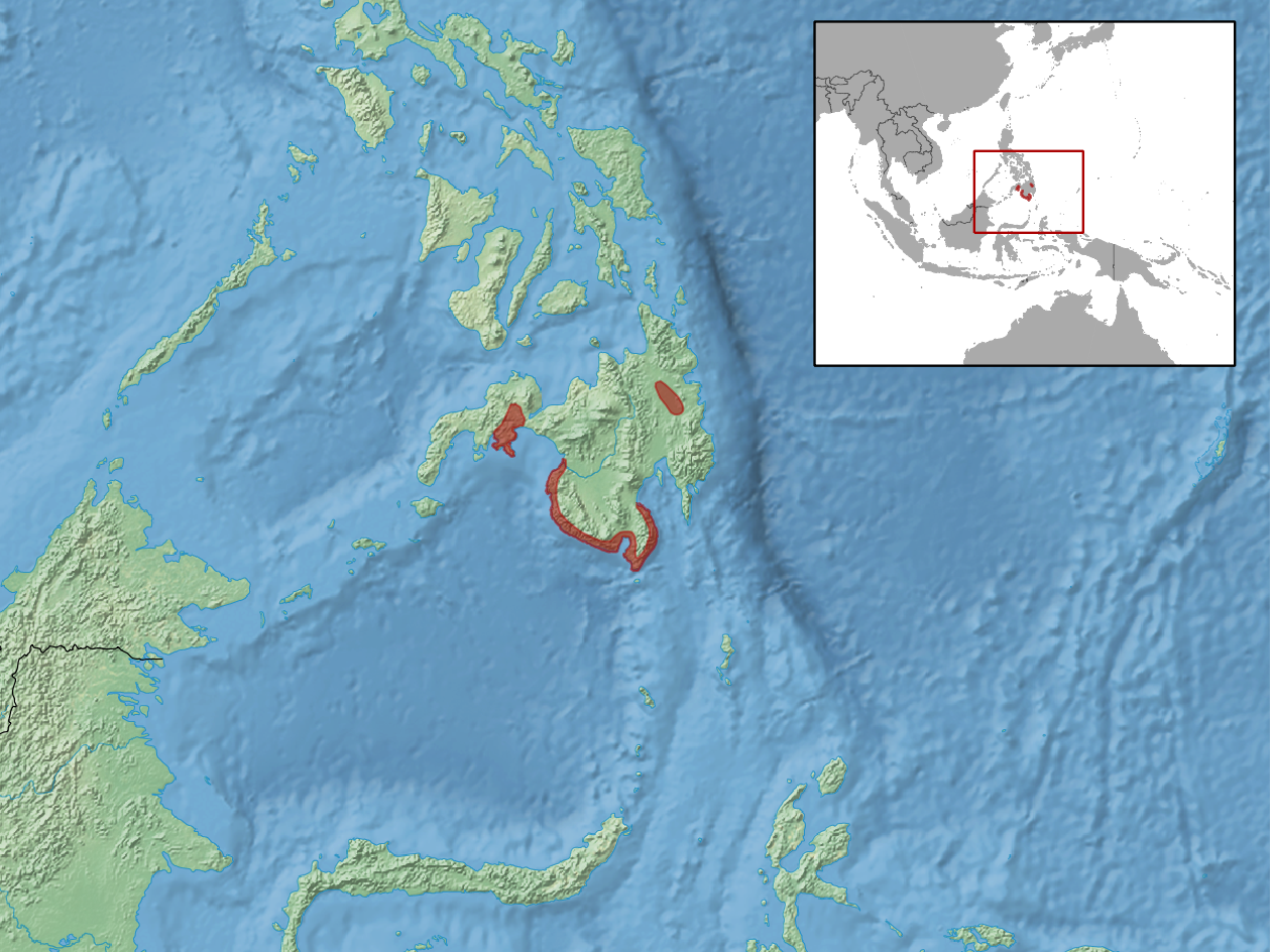 geographic distribution of Emoia ruficauda